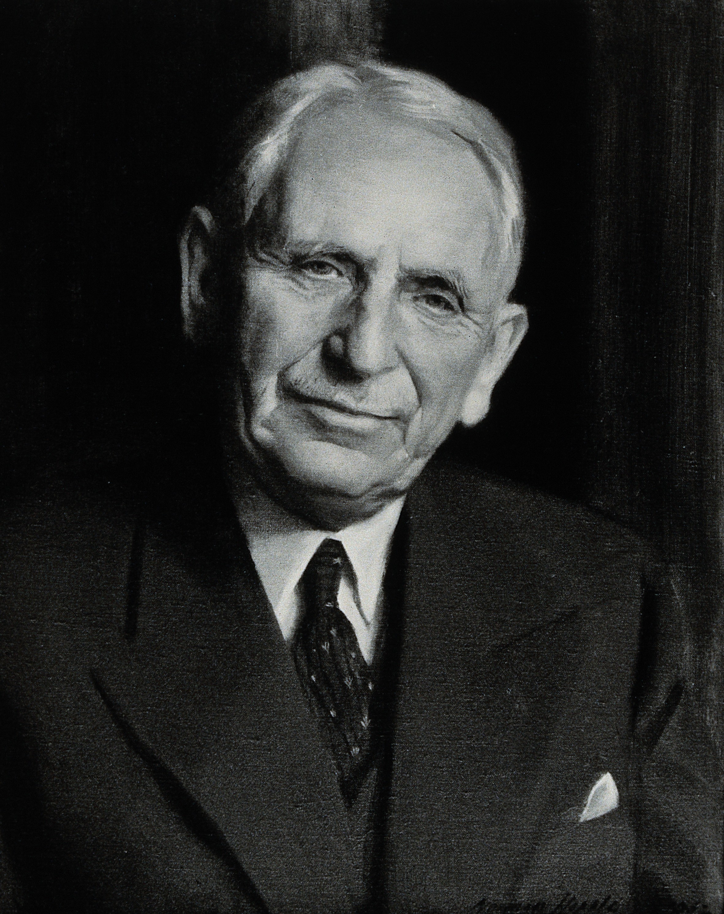 Sir John Boyd. Photograph. Iconographic Collections Keywords: portrait photographs